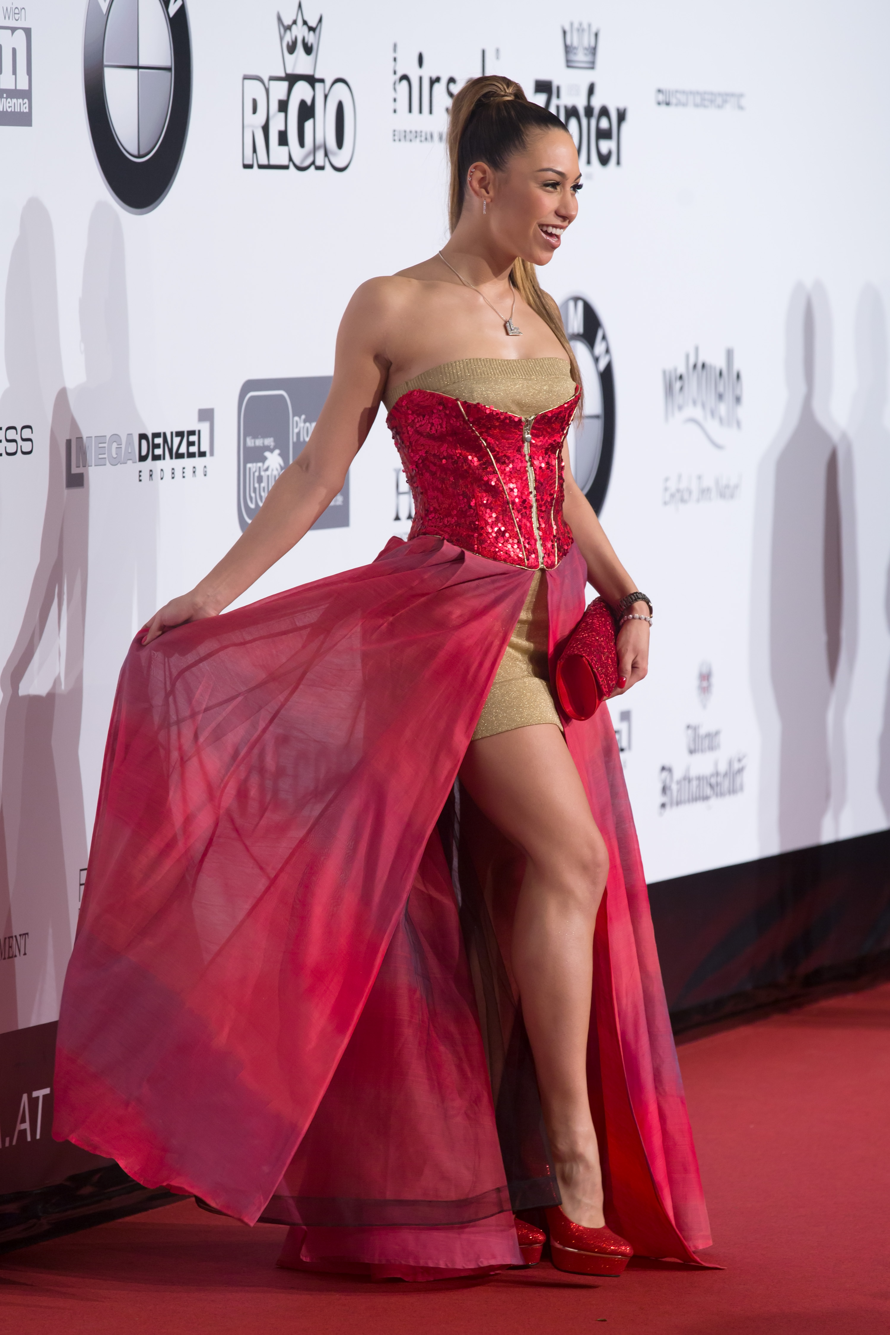 Ronja Hilbig on the red carpet of the Filmball Vienna at Rathaus, Vienna, Austria.